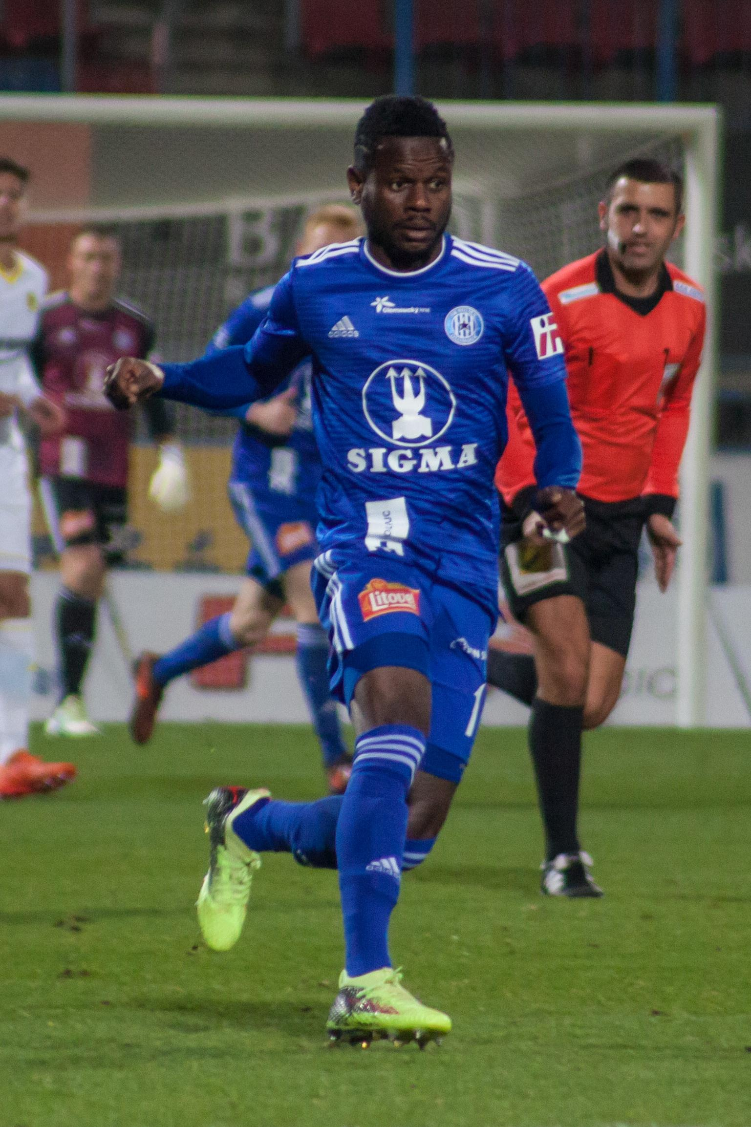 Bidje Manzia At Czech cup (MOL Cup) match SK Sigma Olomouc-FC Fastav Zlín played on 15 November 2018